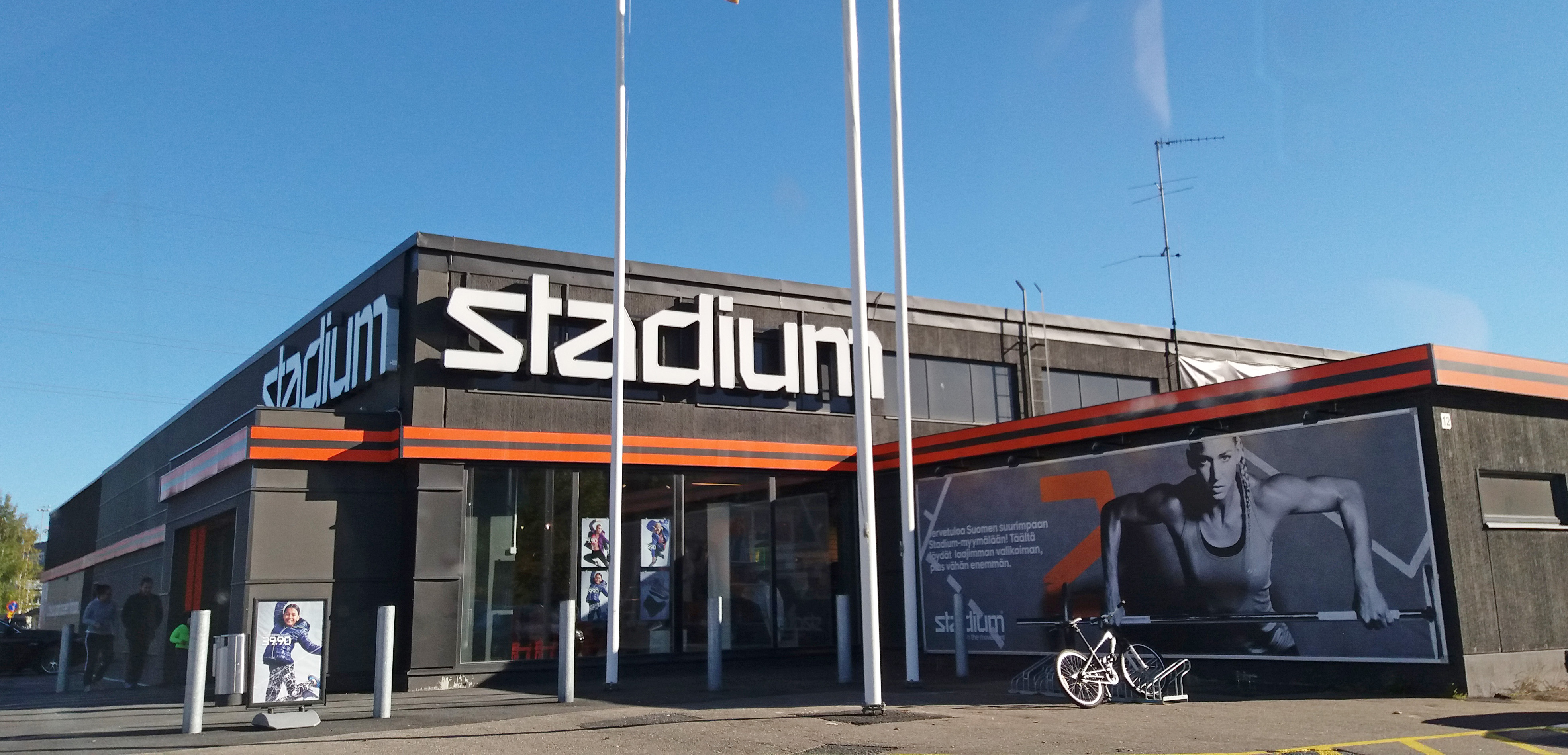 Stadium in Lielahti, Tampere.